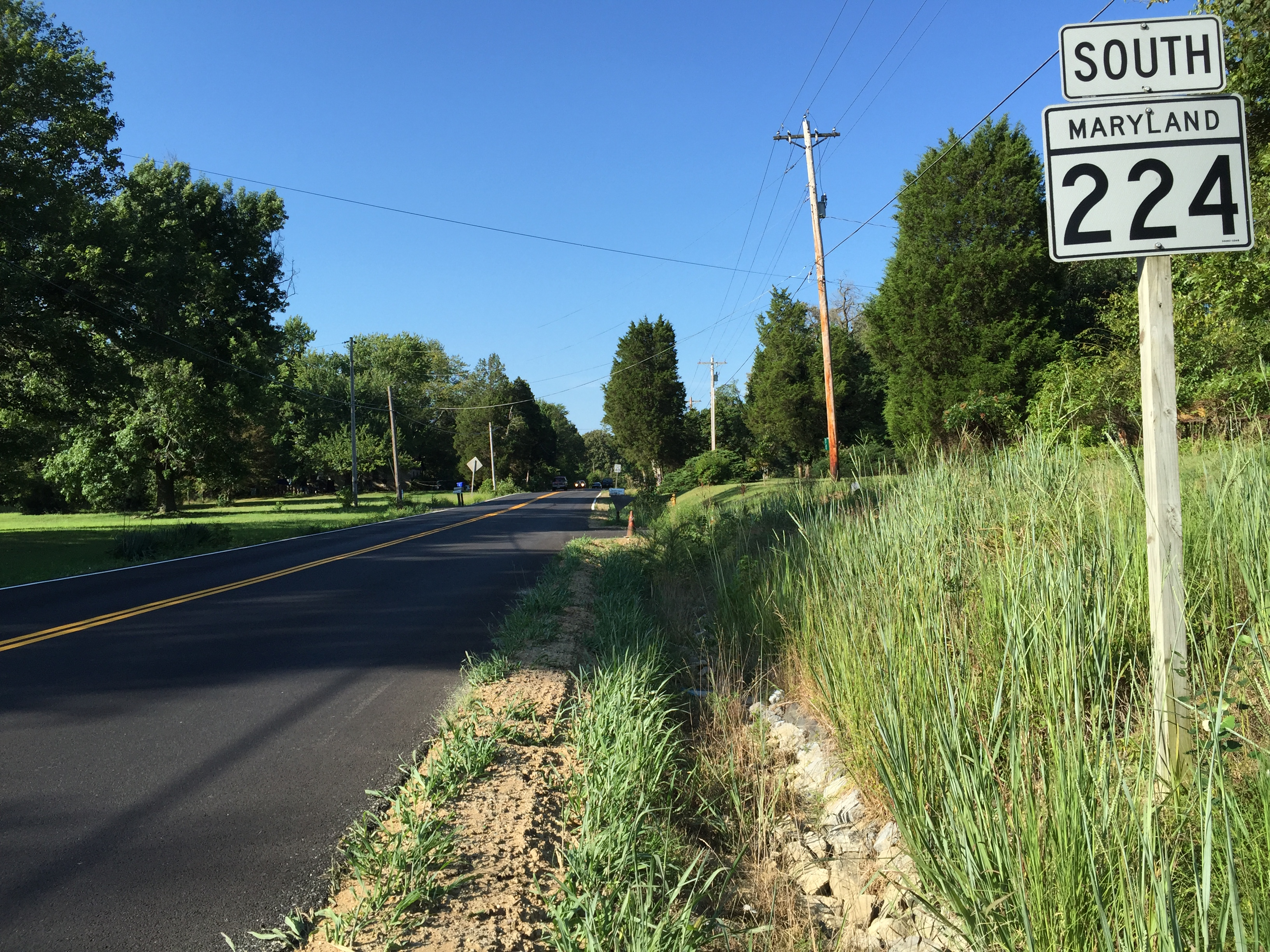 View south along Maryland State Route 224 (Livingston Road) at Maryland State Route 227 (Pomfret Road) in Bryans Road, Charles County, Maryland